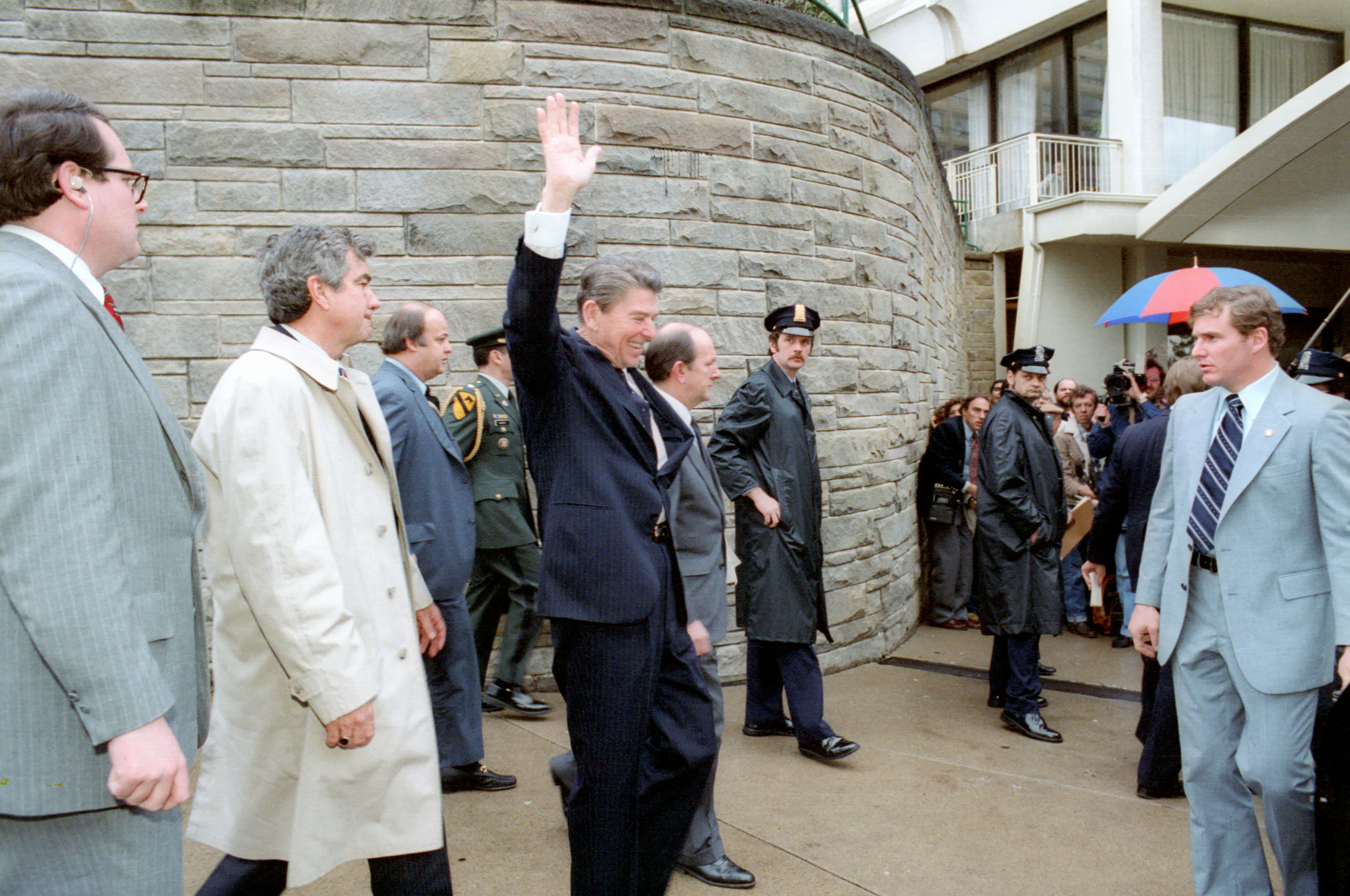 President Ronald Reagan moments before he was shot in an assassination attempt, March 30, 1981. Photograph ID C1426-16, ARC Identifier 198513, Collection RR-WHPO: White House Photographic Collection, 01/20/1981-01/20/1989), Ronald Reagan Presidential Foundation and Library.